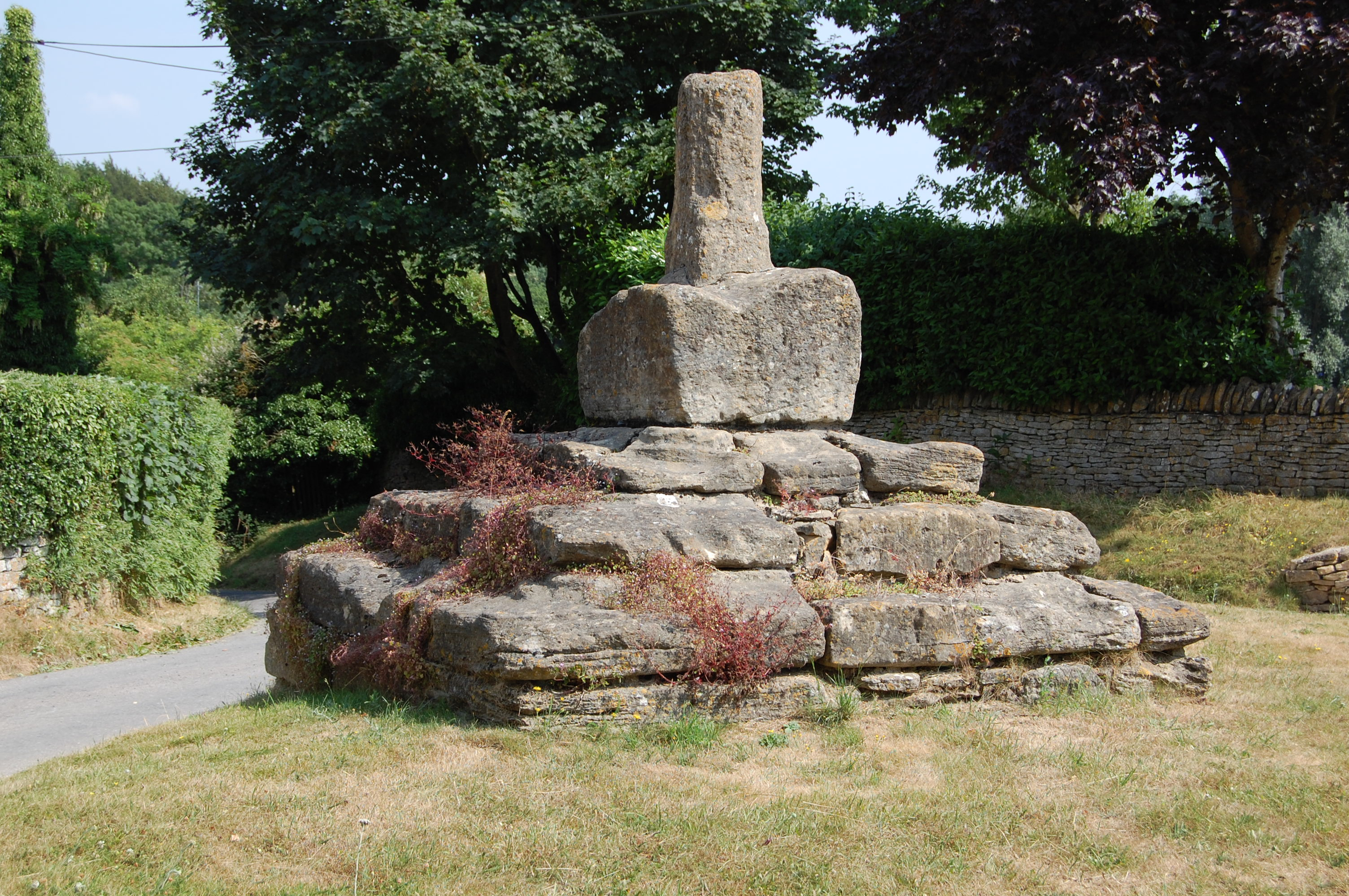 The worn stonework of the "Preaching Cross" at Taston, Oxfordshire, UK.